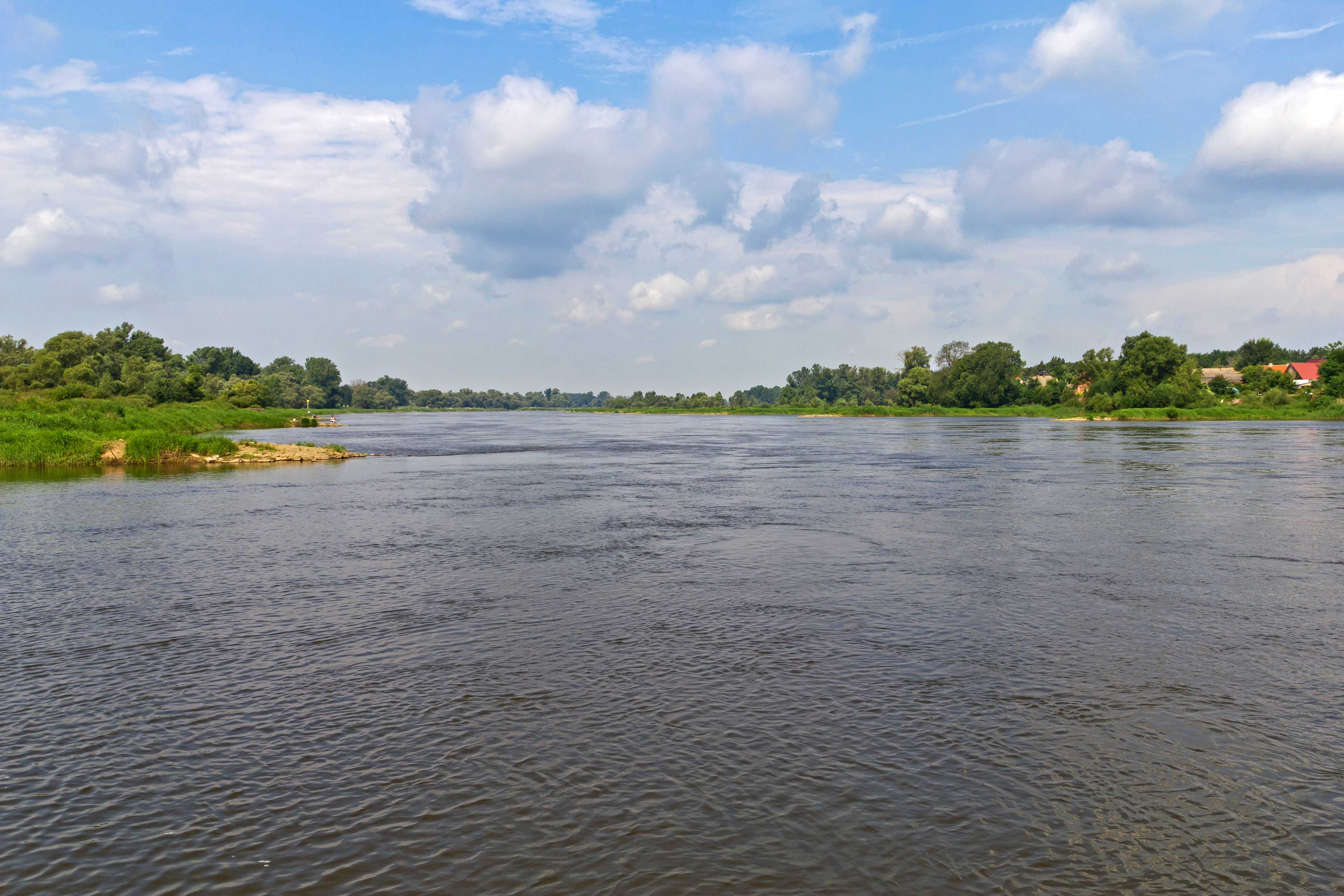 Oder River near Gubin, Lubusz Voivodeship, Poland